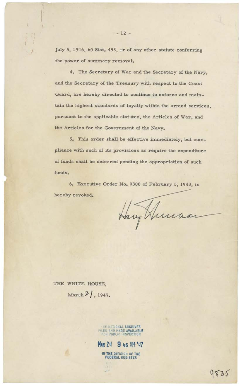 Sigature page of Executive Order 9835 instituting loyal review programs for all federal employees